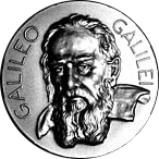 The International Commission for Optics (ICO) Galileo Galilei Medal